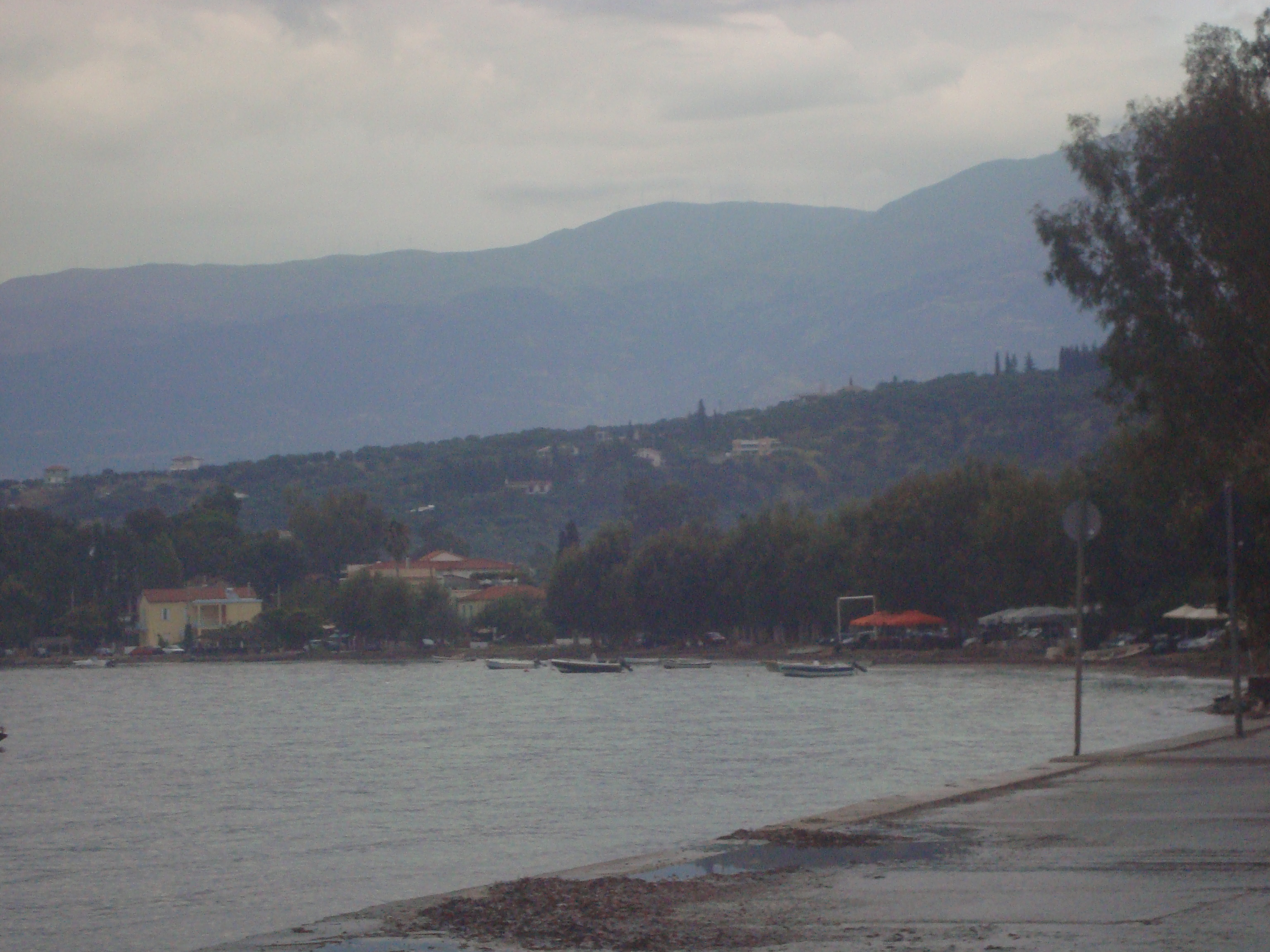 Vraxneika Beach